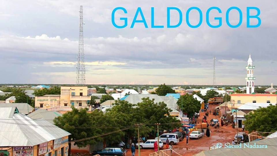 Galdogob